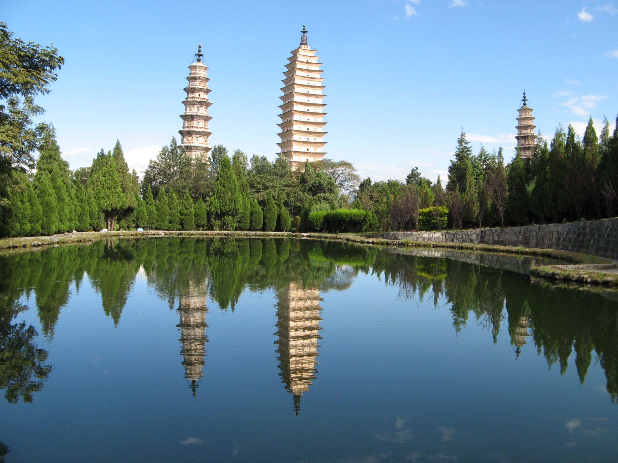 Three Pagodas Reflected in the Viewing Pond. Chongsheng Si, Dali One of the favorite romantic views in this part of China is the sight of the three pagodas reflected, along with greenery and sky, in the temple's beautifully-landscaped viewing pond.